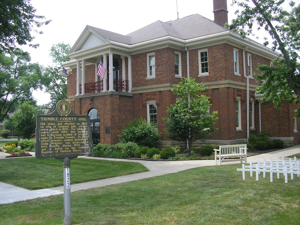 Trimble County Courthouse in Kentucky, USA. Town of Bedford, the county seat.